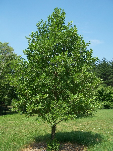 European Black Alder Tree, Alnus glutinosa. Specimen tree at Morton Arboretum, Lisle, Illinois, USA.